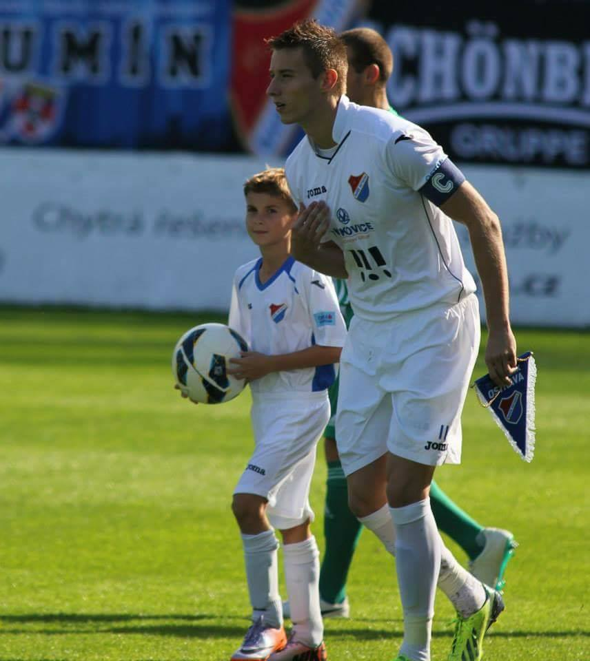 Jan Gregus in Banik Ostrava